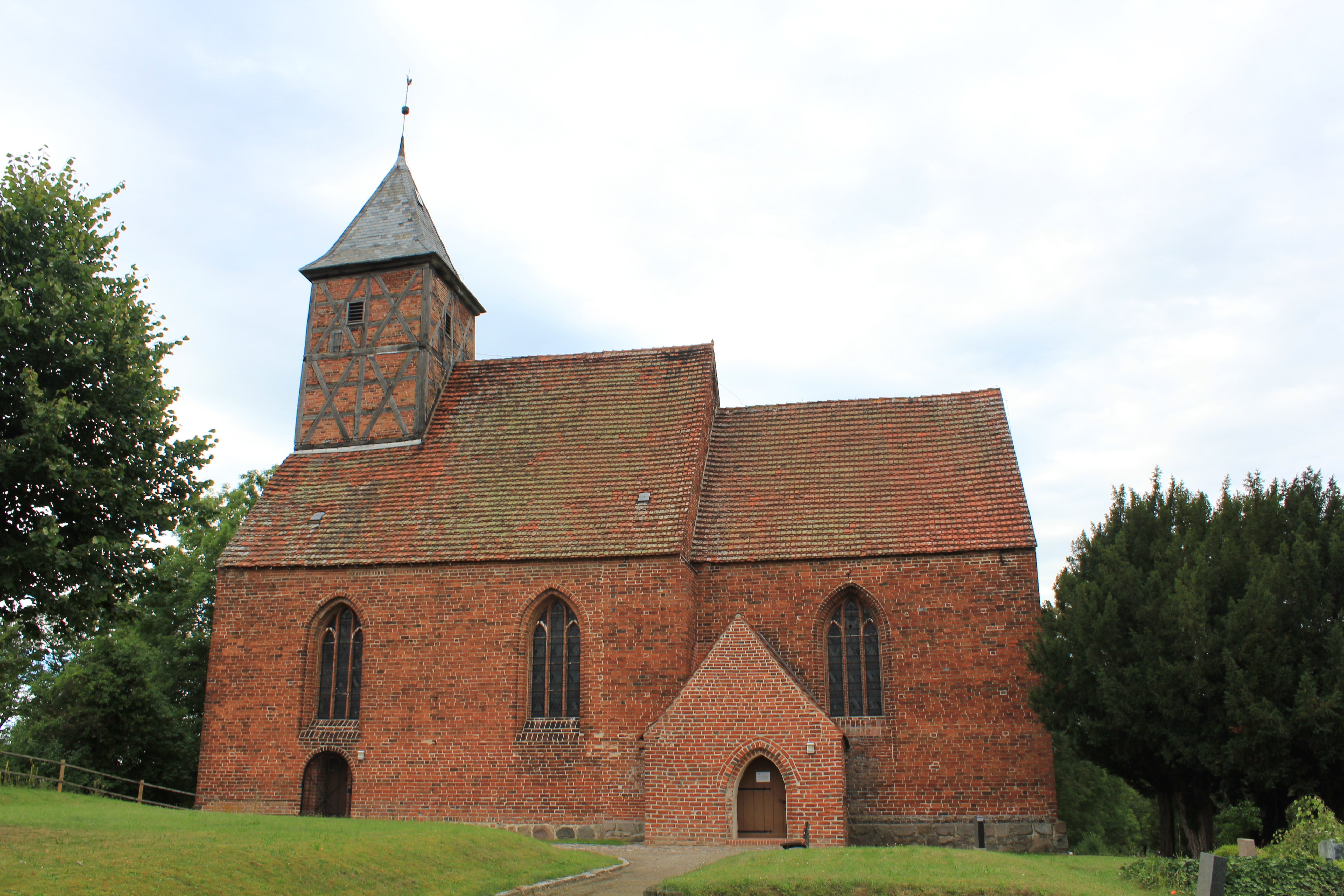 Church in Woosten, Germany